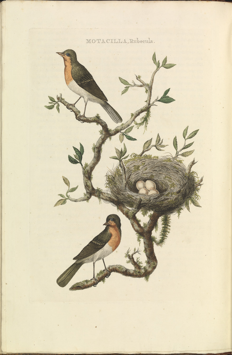 Plate 48 from the Nederlandsche vogelen by Nozeman and Sepp.